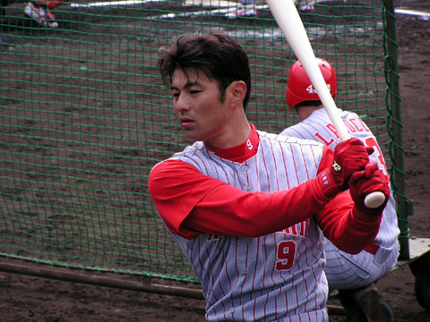 Koichi Ogata, outfielder of the Hiroshima Toyo Carp, at Nichinan Tempuku Baseball Stadium.